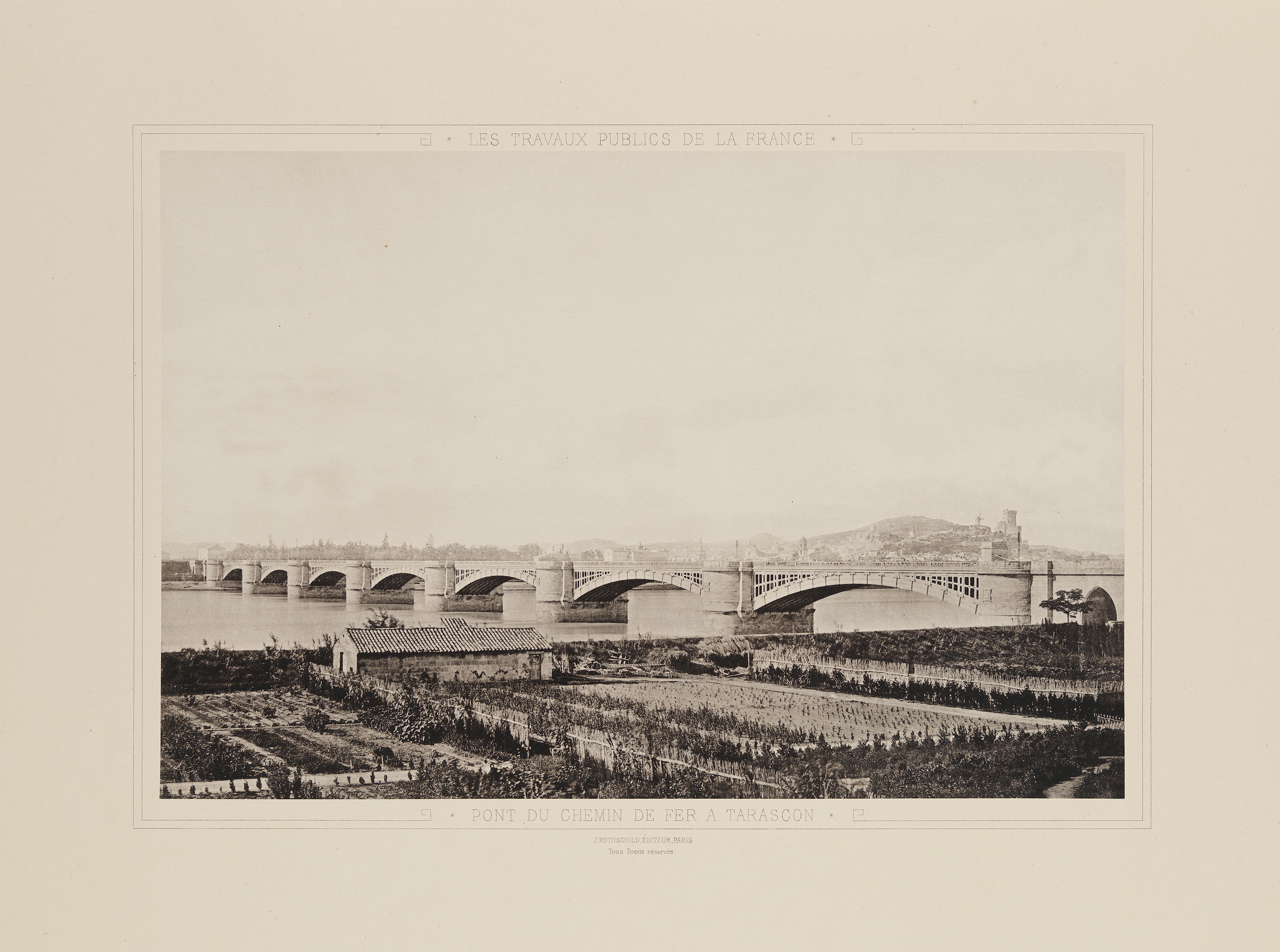 Title: Pont de Chemin de Fer a Tarascon Alternative Title: Tarascon Railway Bridge Creator: Baldus, Edouard, 1813-1889 Date: ca. late 1850s Part Of: Les Travaux Publics de la France, Tome Deuxieme: Chemins de Fer Place: Tarascon, Bouches-du-Rhone, France Physical Description: 1 photographic print: collotype; 26 x 35 cm on 40 x 56 cm mount File: vault_folio_2_ta71_a4_1883_2_37_opt.jpg Rights: Please cite Southern Methodist University, Central University Libraries, DeGolyer Library when using this image file. A high-quality version of this file may be obtained for a fee by contacting . For more information, see